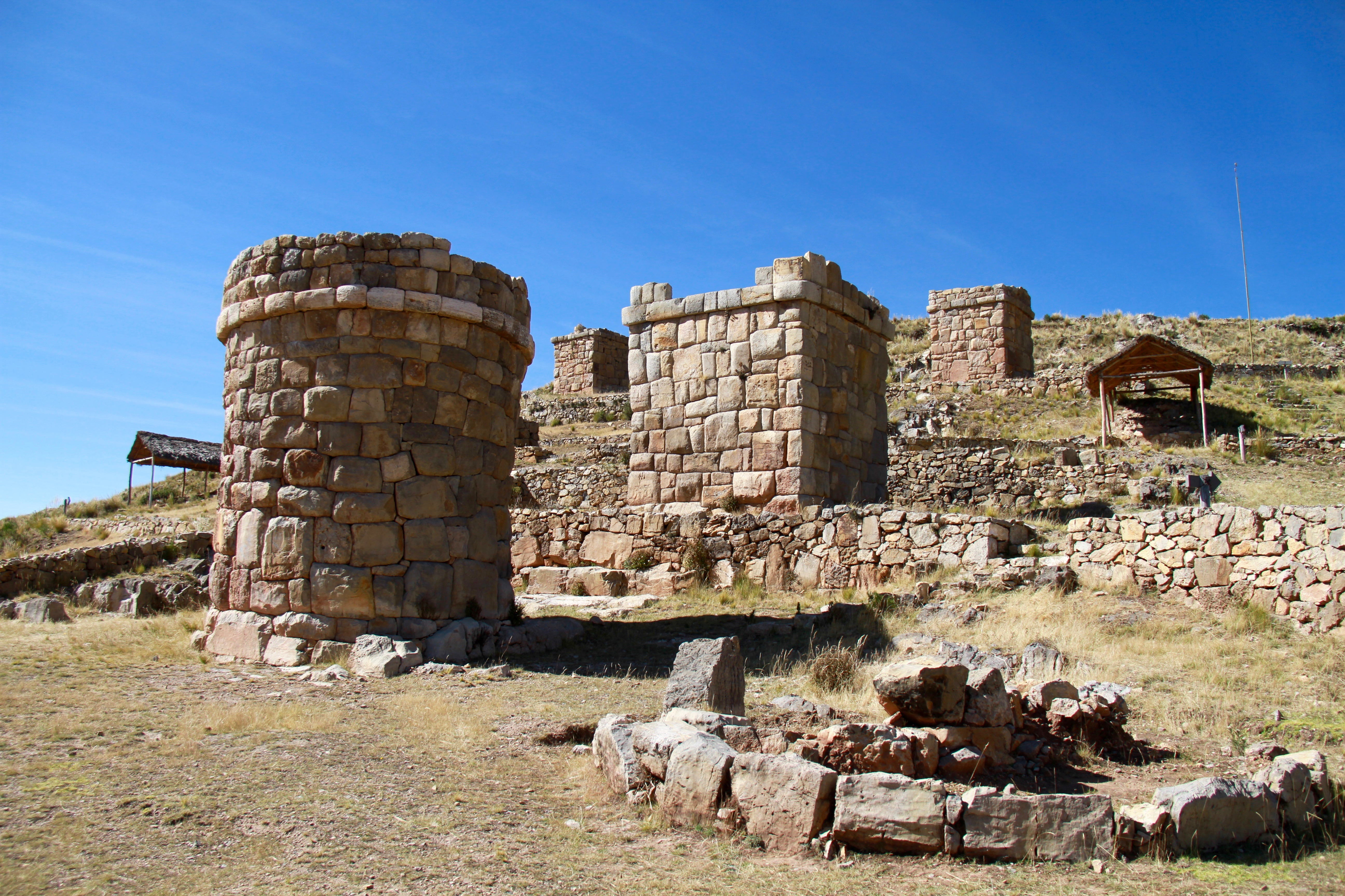 Funerary towers south of Titilaka lodge, Puno. These are different from the more visited Sillustani, Pre-Inca, Inca burial towers.